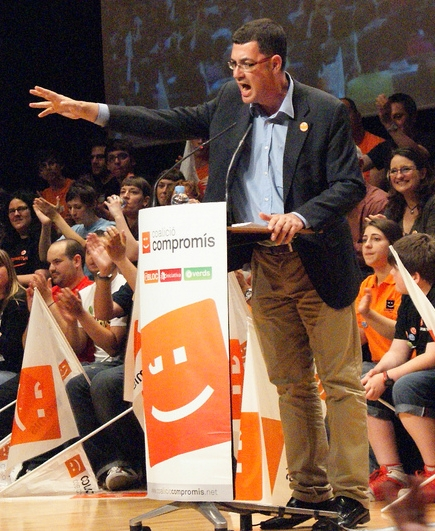 Enric Morera